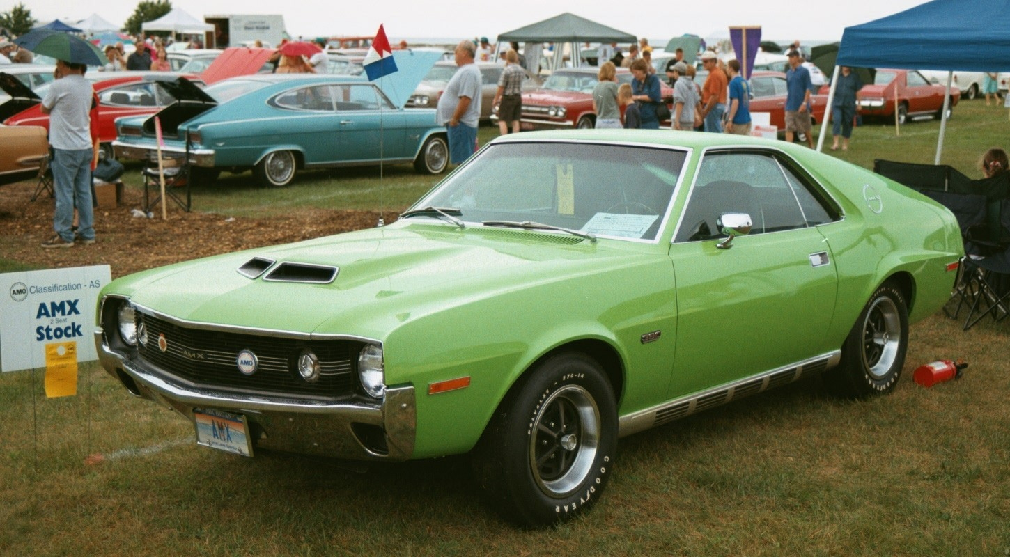 Exterior view of a 1970 AMX by AMC (American Motors Corporation). This is muscle car in the Grand Tourer tradition. A two-seat, GT-type sports coupe finished in Big Bad Green (BBG) paint code P-4. This car has the "Go-Package" with the Ram Air 390 CID (6.4 L) V8 engine and the standard "Magnum" styled wheels. Picture was taken at the classic AMC show in Wisconsin.